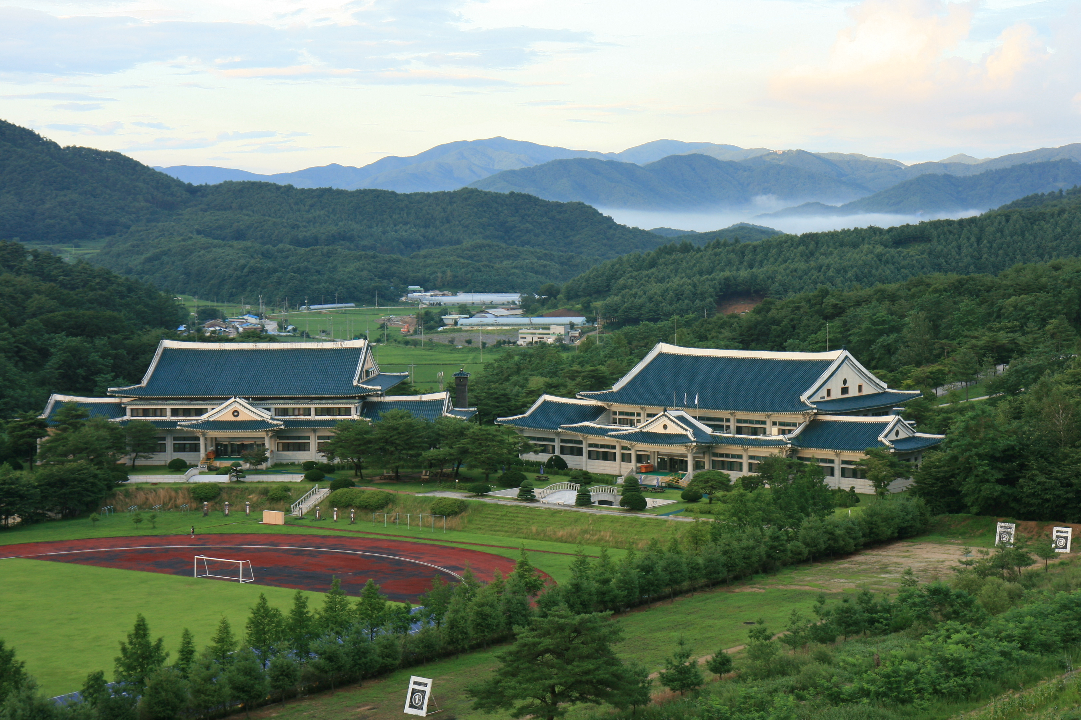 Dasan Hall (left) and Chungmu Hall (right) from the top of the newly constructed dormitory.